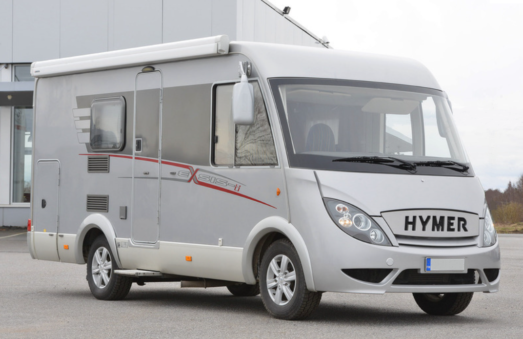 A Ford Transit VI based Hymer Exsis 522 campervan.